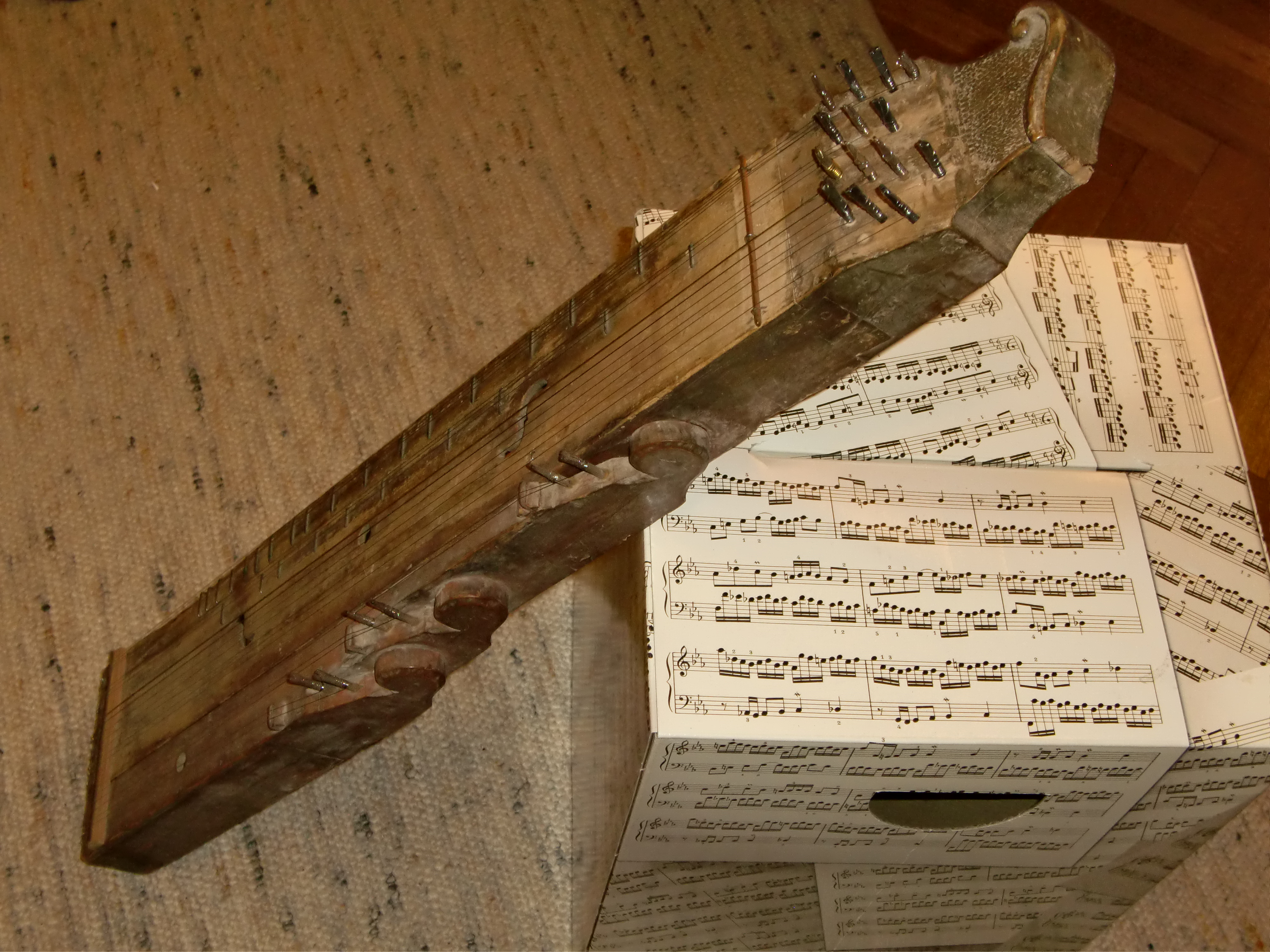 old musical instrument